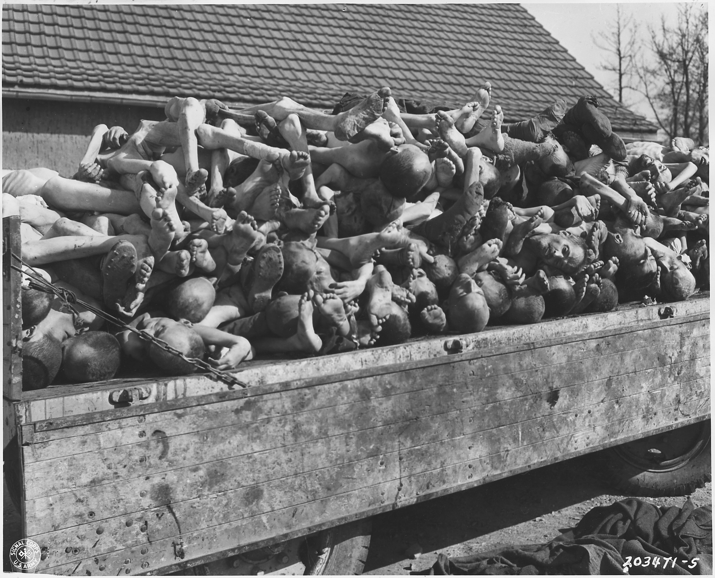 Scope and content: GERMAN ATROCITIES. Nazis ran out of coal and were unable to cremate bodies of dead at camp Buchanwald near Weimar before it was taken by a fast-moving spearhead of Gen. Patton's Third Army. Weimar Civilians were placed under Military Police escort and forced to witness the results of atrocities in Nazi horror mill. 04/16/45.